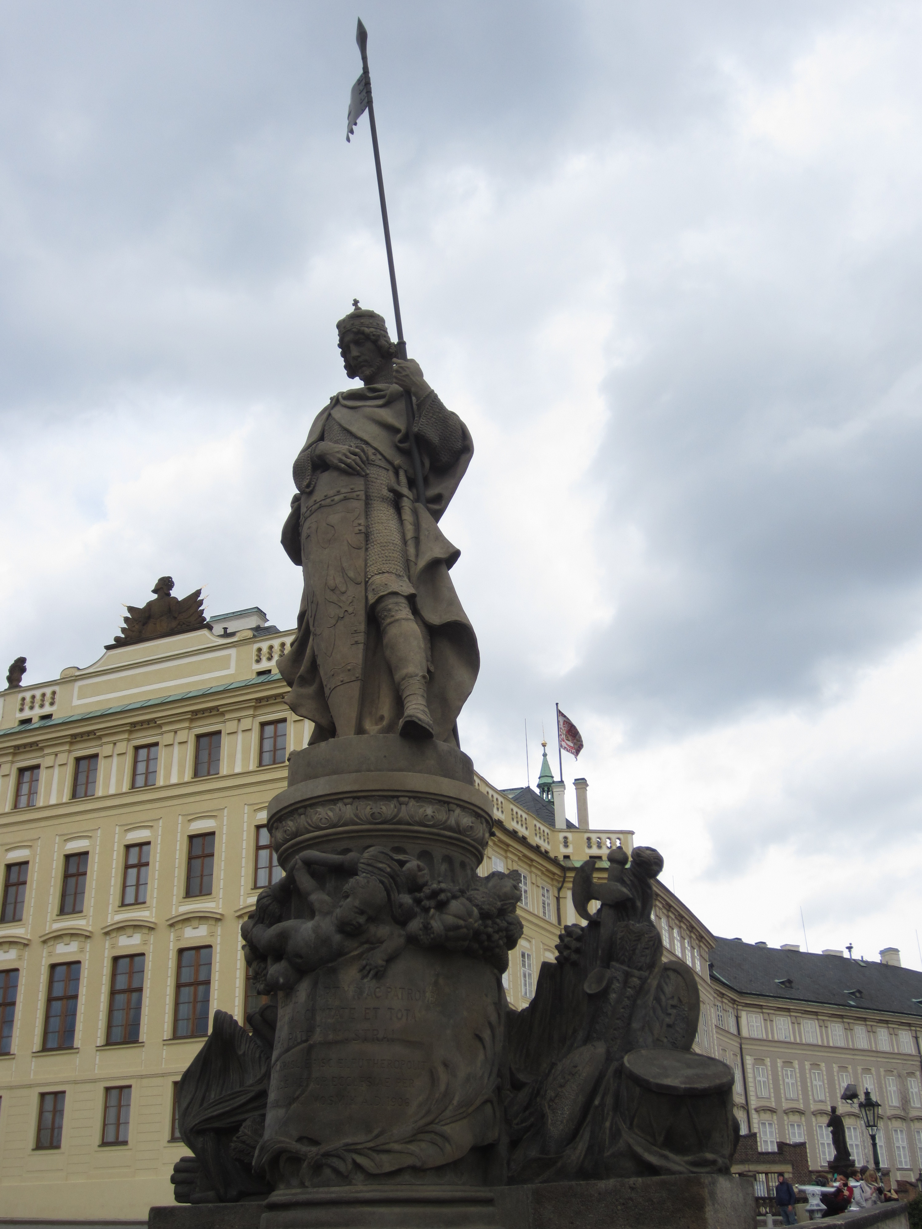 Prague, Czech Republic, April 2016